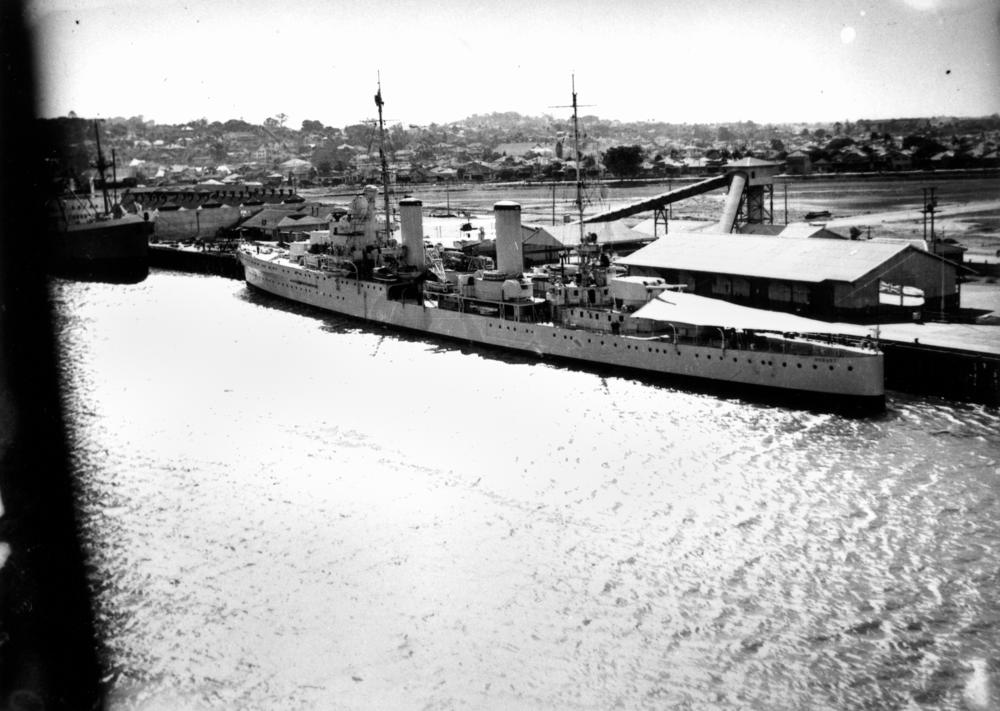 HMAS Hobart at Hamilton Wharves, Brisbane.